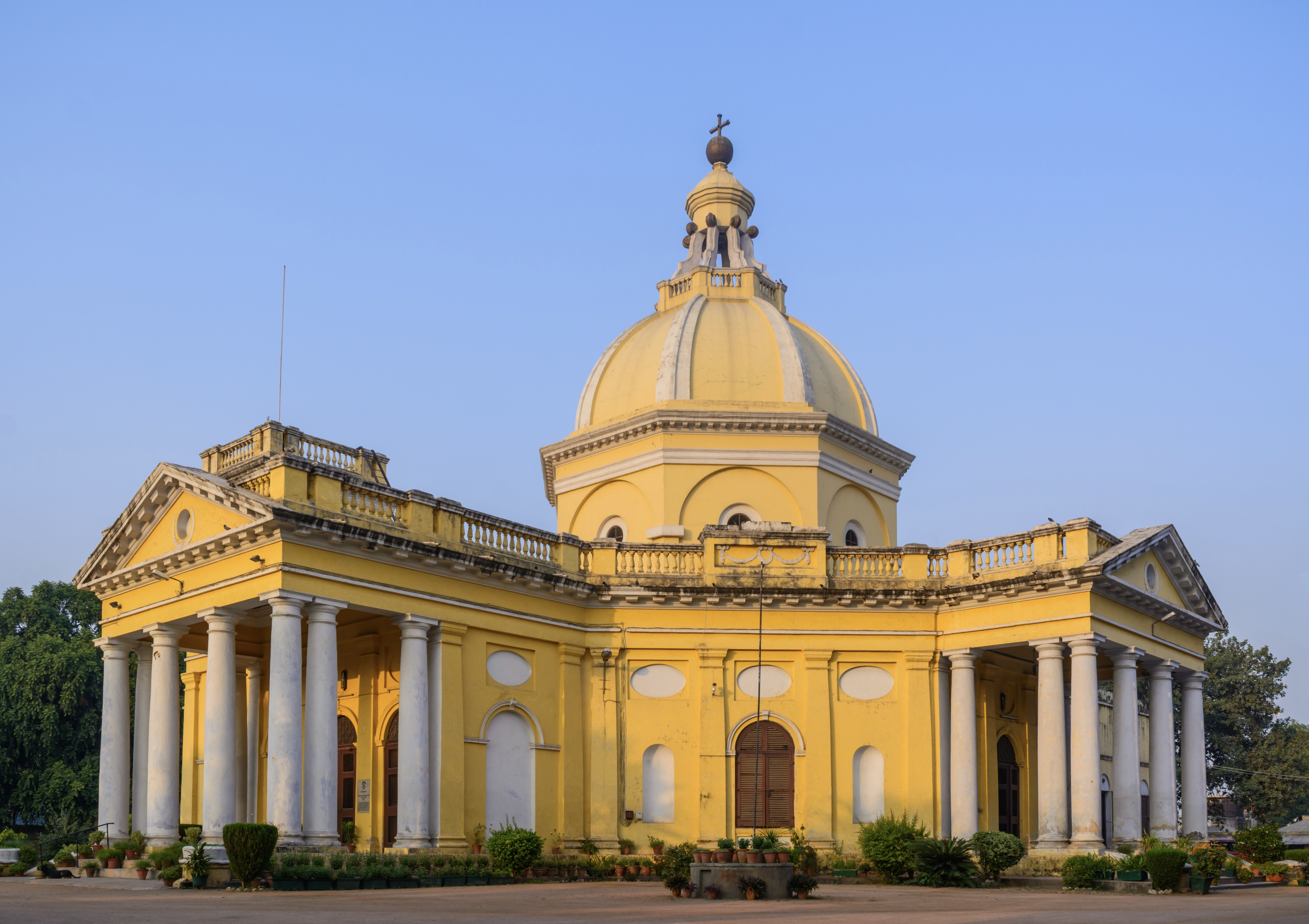 Entrance View